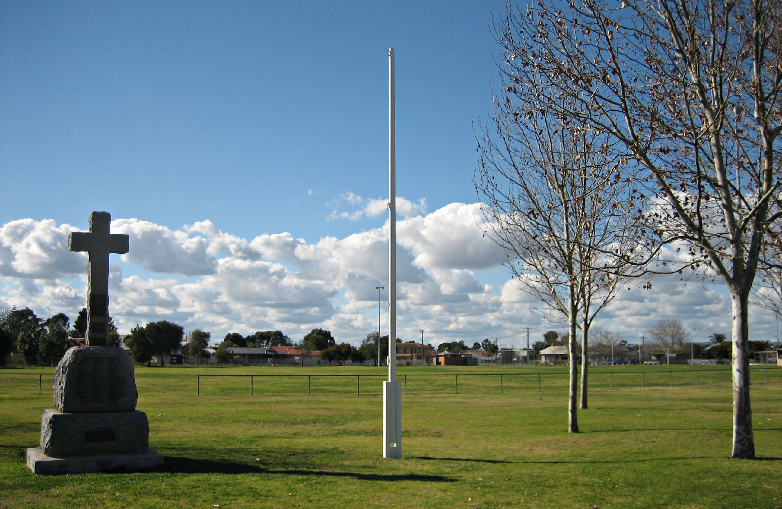 Eric Sutton Oval at Rosewater in South Australia. Seen in the foreground is a small WWI memorial and a flag pole.